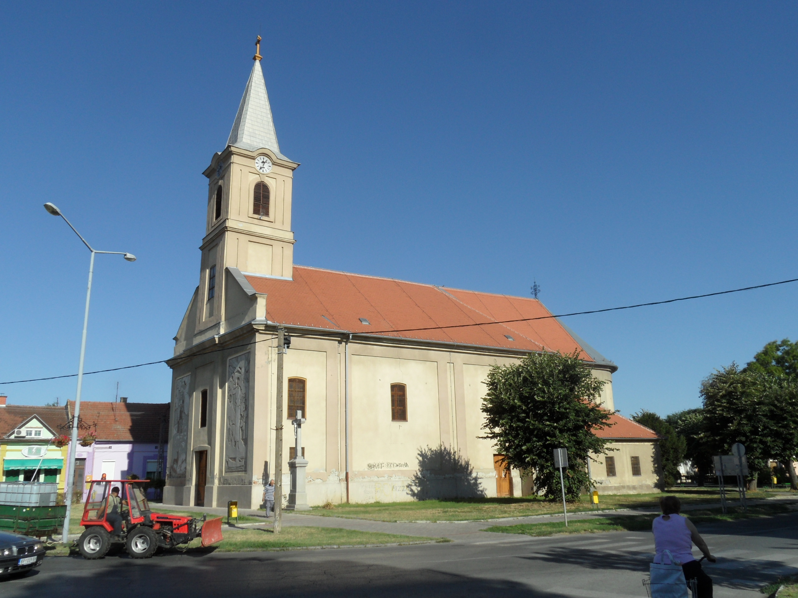 Bačka Palanka, Serbia, Roman Catholic church